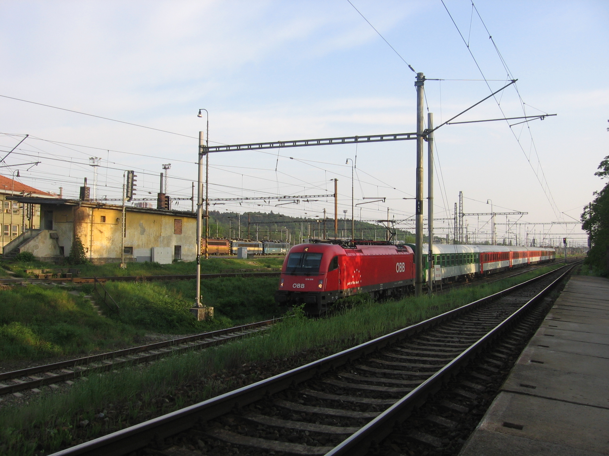 EuroCity train in Brno-Maloměřice